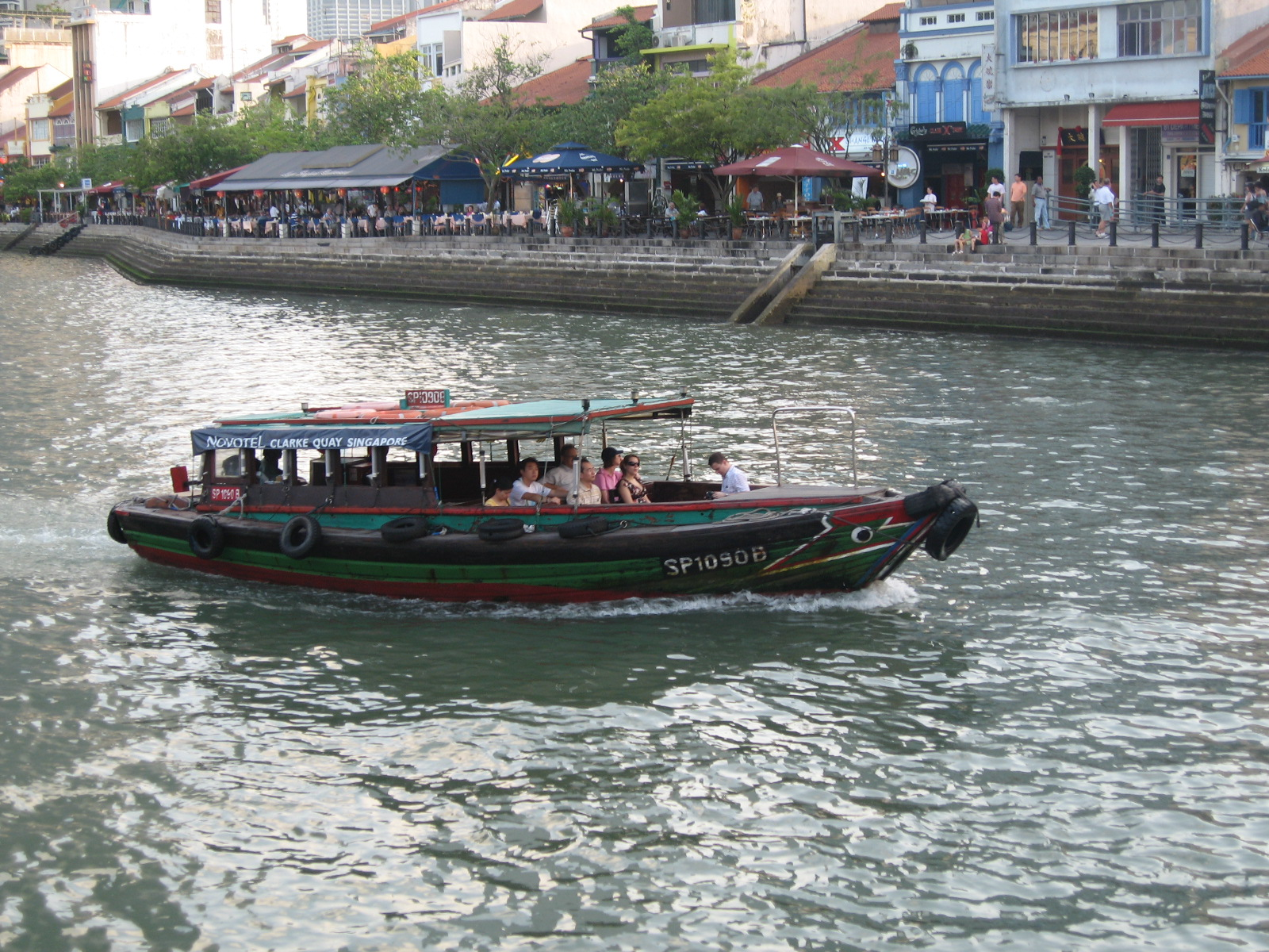 A bumboat used as a river taxi along the Singapore River near Boat Quay.